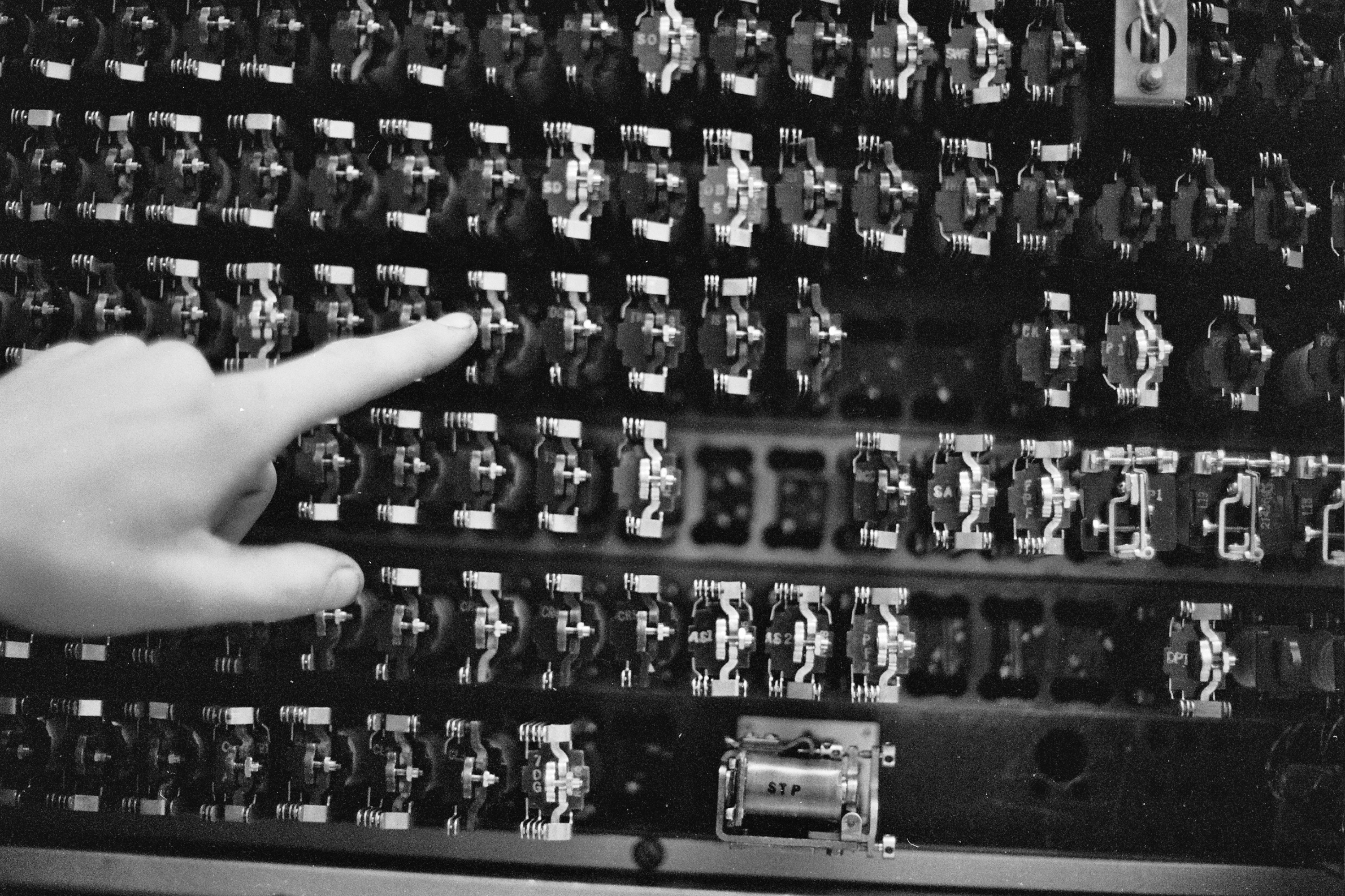 Panel Sender Relays with hand for size, in a Panel switch exchange. See also File:Panel Sender Relays.jpg.